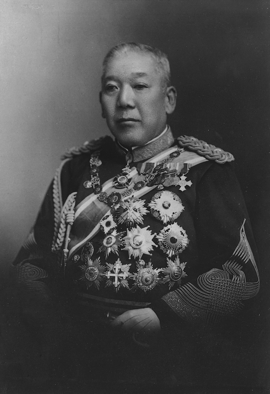 Portrait of Oyama Iwao (大山巌, 1842 – 1916)